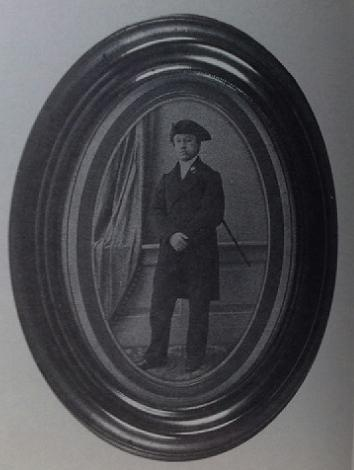 Picture of the Dutch referent Leendert Schouten, founder of the Biblical Museum in Amsterdam